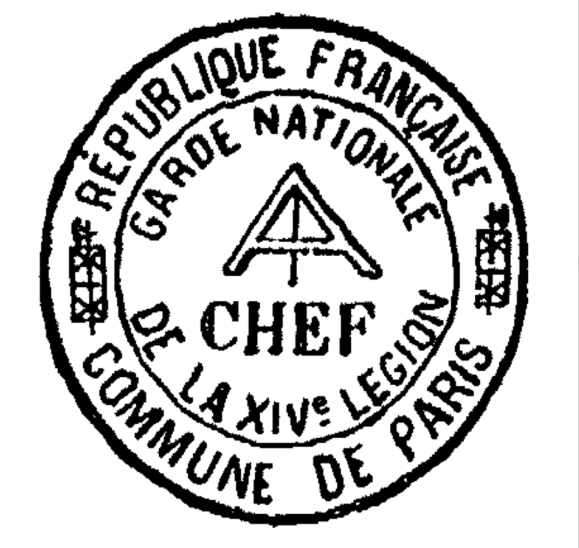 National Guard (France, 1871)